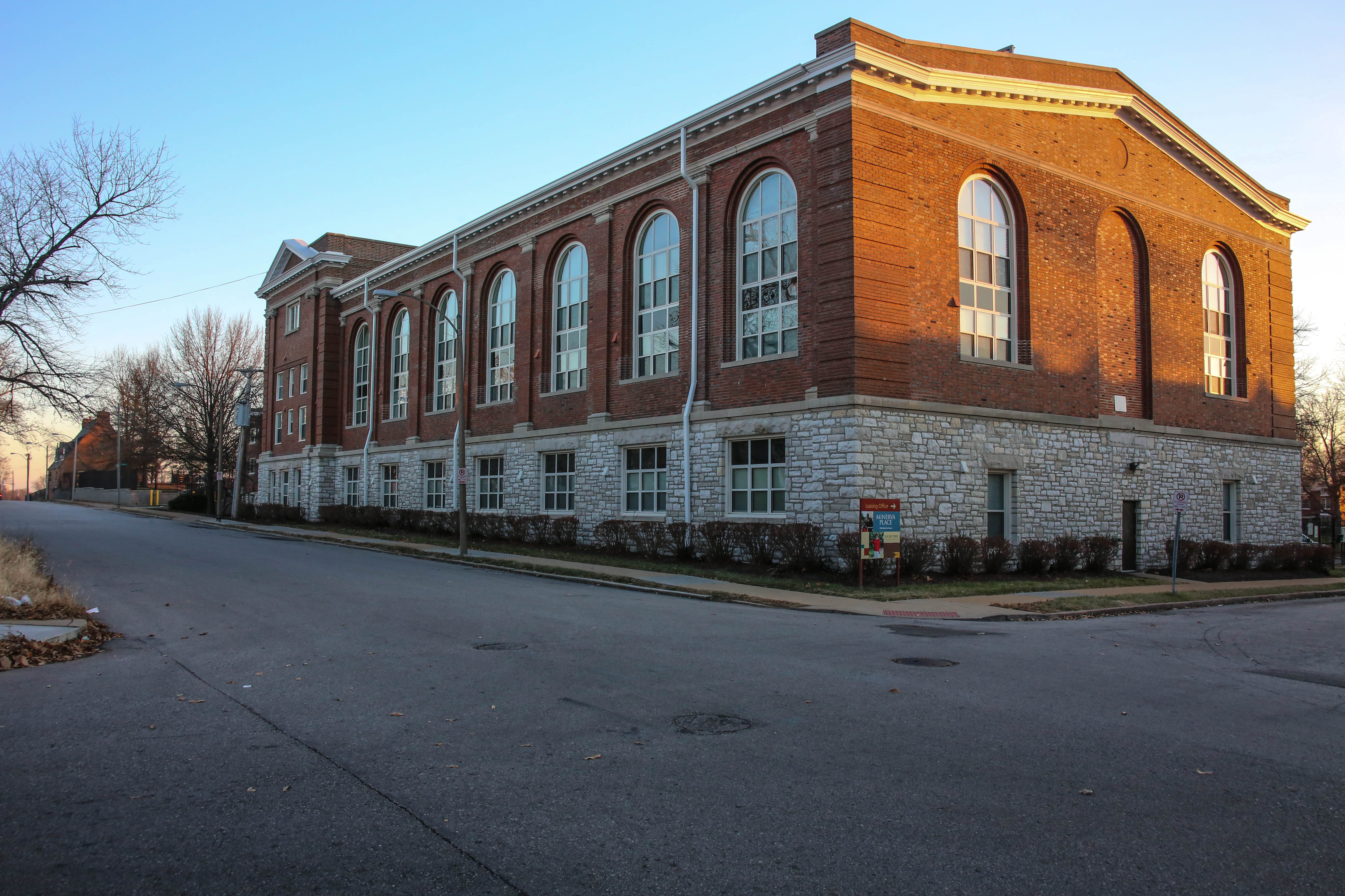 Principia School Auditorium designed by William B. Ittner as an addition to its neighbor by Albert B. Groves